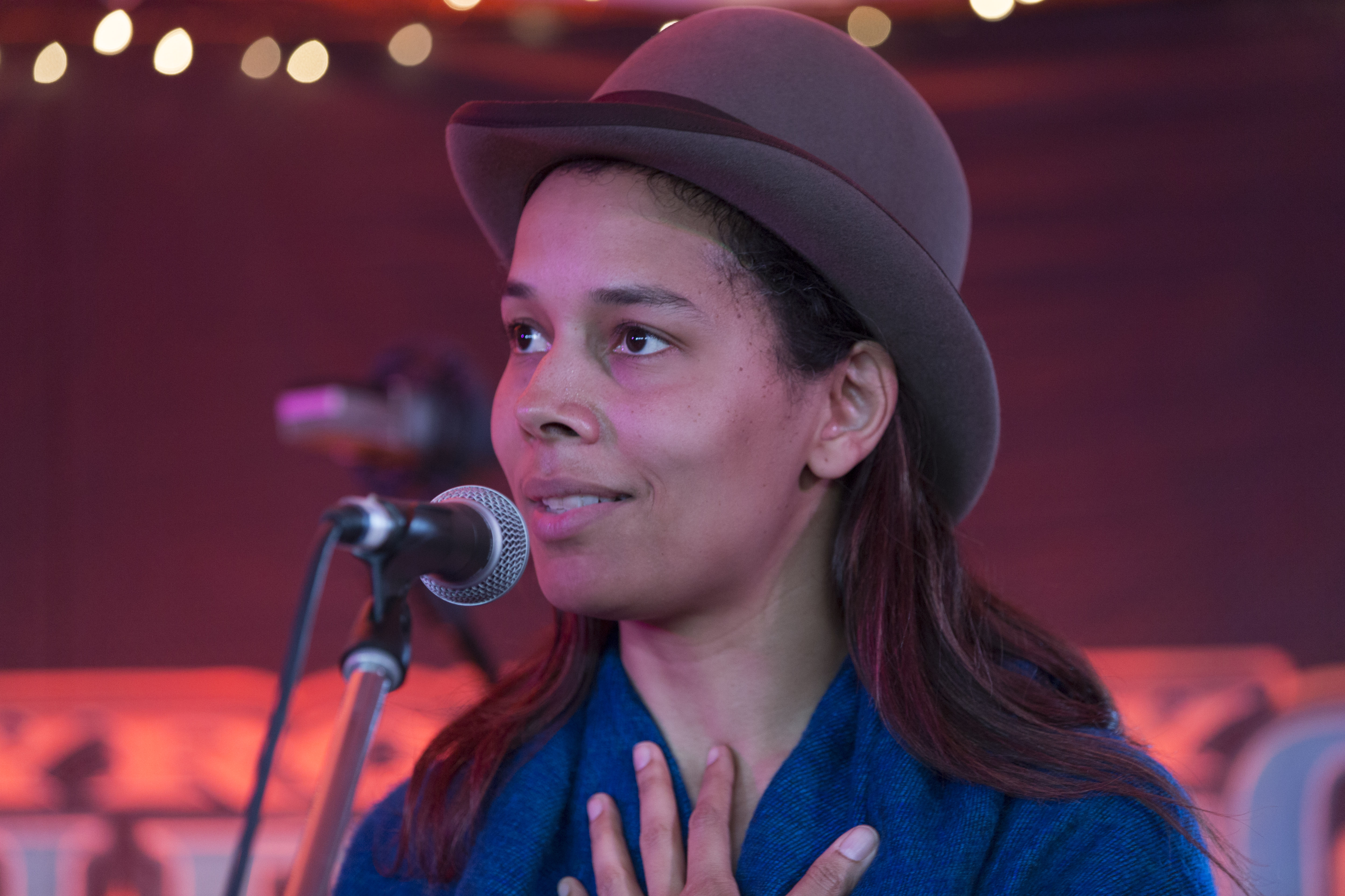 Byron Bay Bluesfest 2016